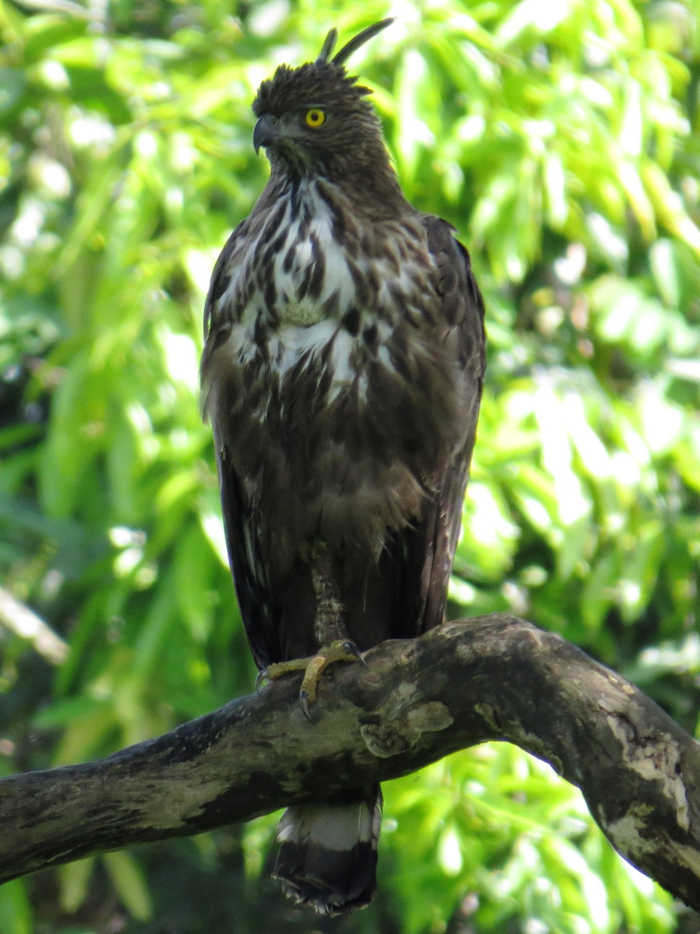 Crested Hawk-eagle Nisaetus cirrhatus in Mayannur, Thrissur, India.